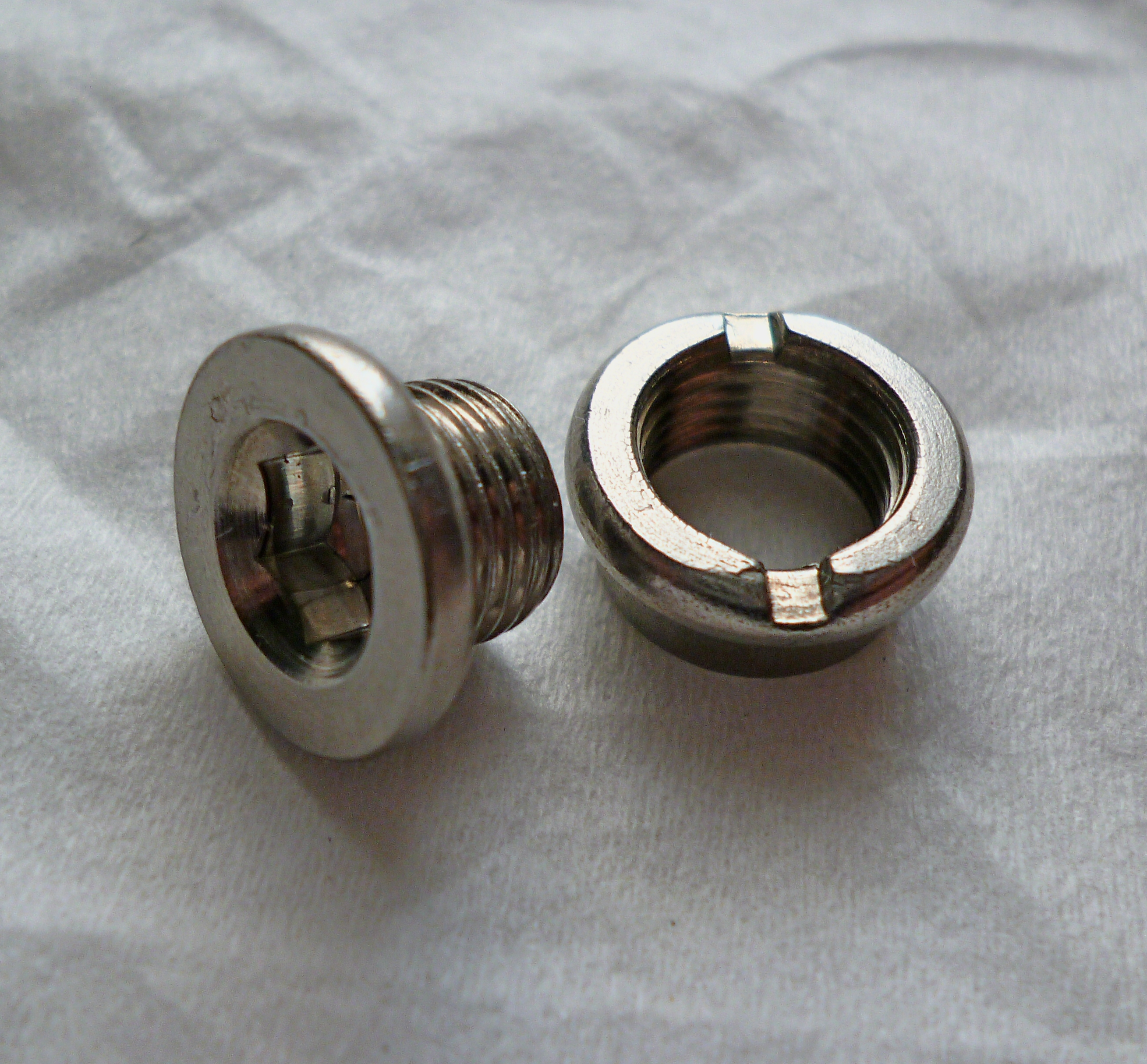 A photo of a silver chain ring bolt for a bicycle. Note that the screw part on the left has a recessed hex nut fitting, and that the slotted nut has not.